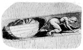 From a educational site offering free info on the victorian age. Image is a copy of one from an official report of a parliamentary commission done in the mid 18th century.